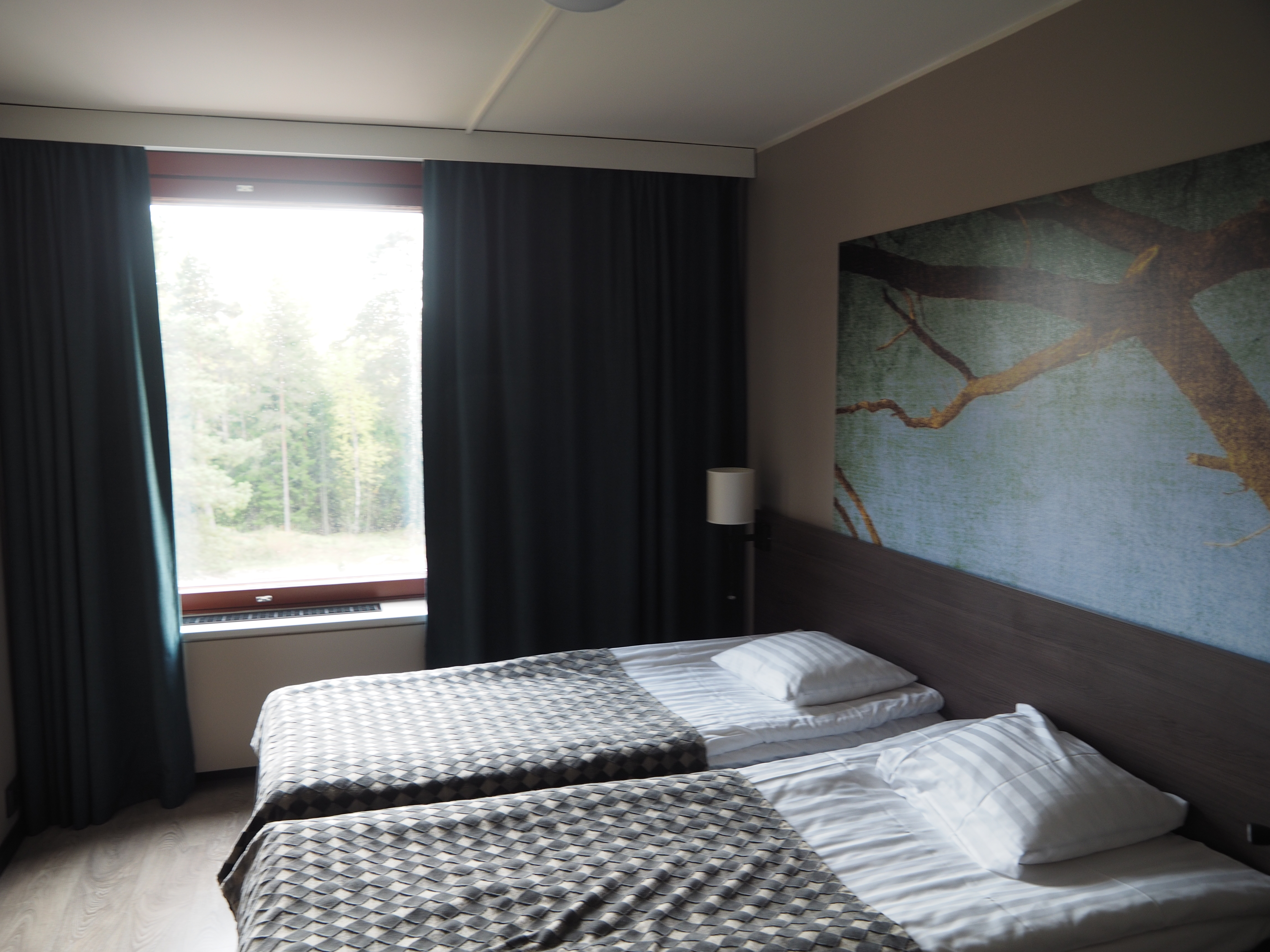 An interior view of a hotel room at Hotel Korpilampi in Lahnus, Espoo, Finland.